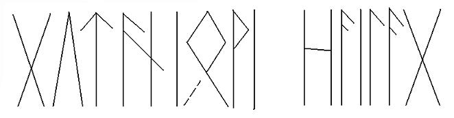 Drawing of the Pietroassa inscription; made after early drawing